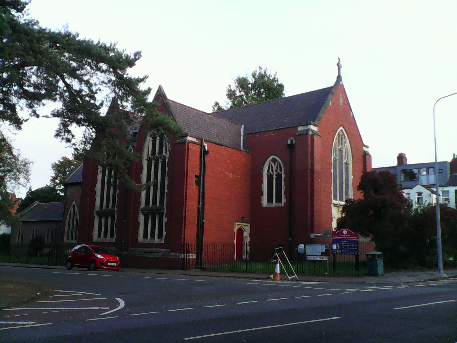 St Edward's church, Roath, seen from east.